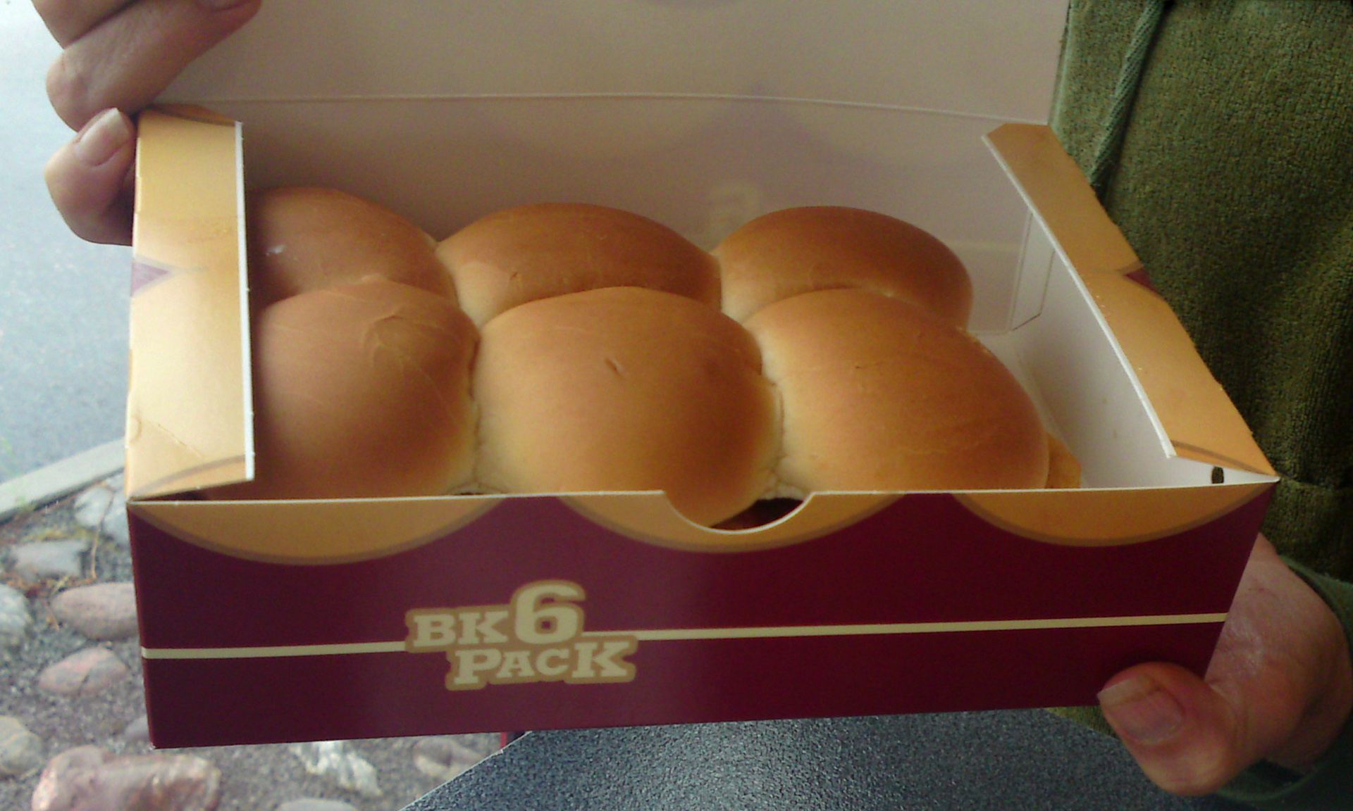 BK Burger Shots, European version